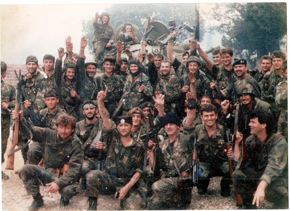 Croatian soldiers in the village of Klepci during the Operation June Dawns in 1992